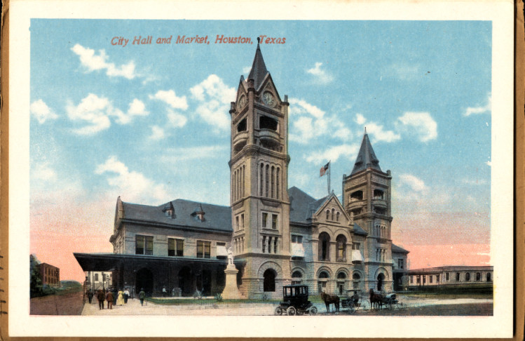 Houston, Texas, City Hall and Market